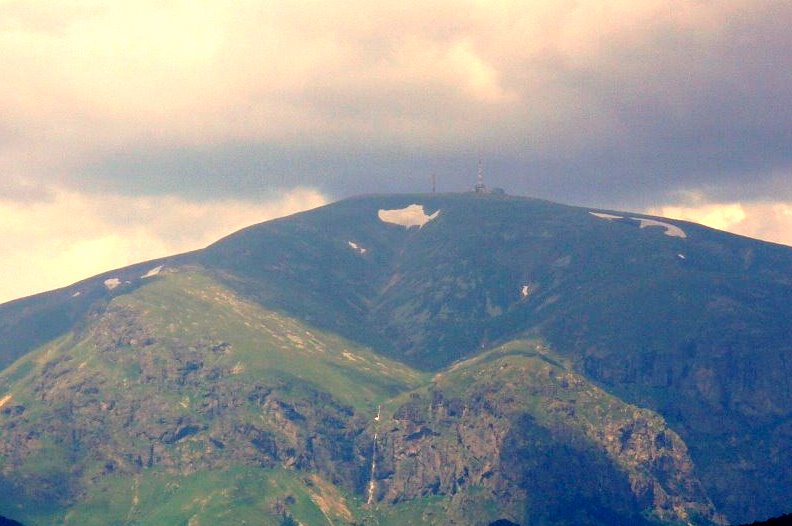 View towards Botev peak and Raiskoto pruskalo from Kalofer railway station